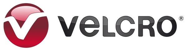 Velcro logo, without slogan or whitespace and png